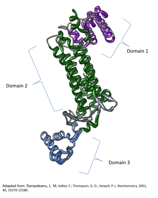 ASL monomer with labeled domains